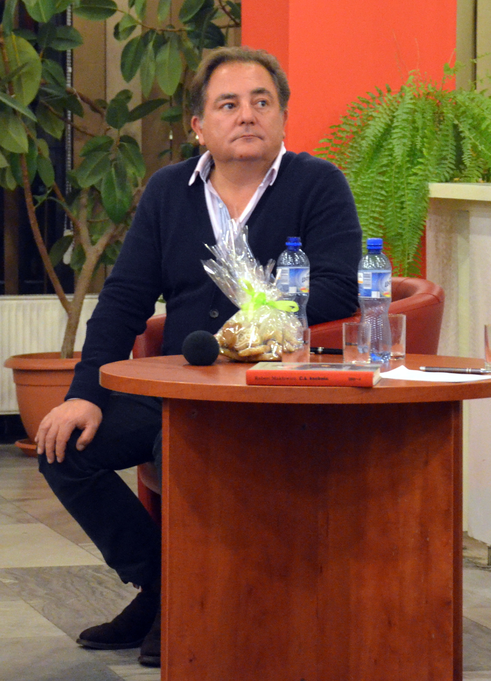 Robert Maklowicz